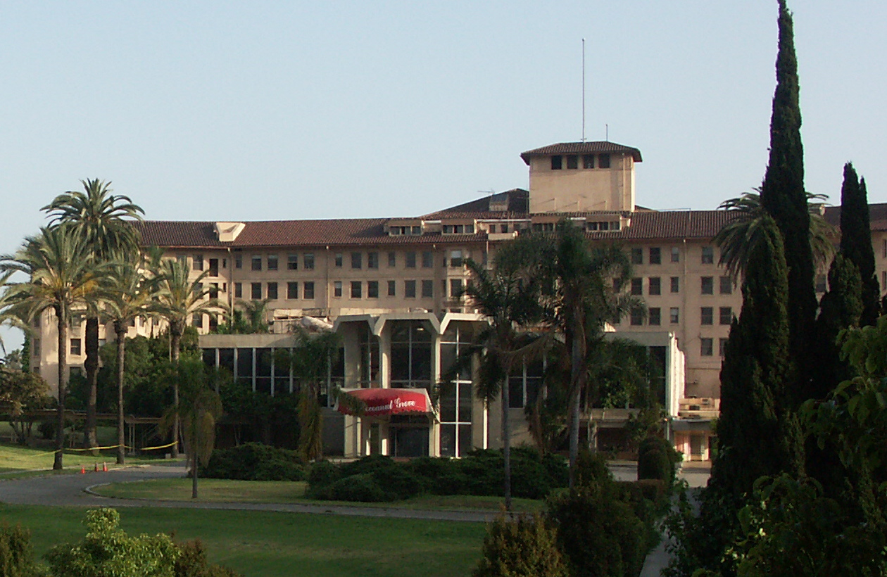 The Ambassador Hotel - formerly on Wilshire Boulevard, Los Angeles, Southern California. Taken in 2004 (hotel demolished 2009).